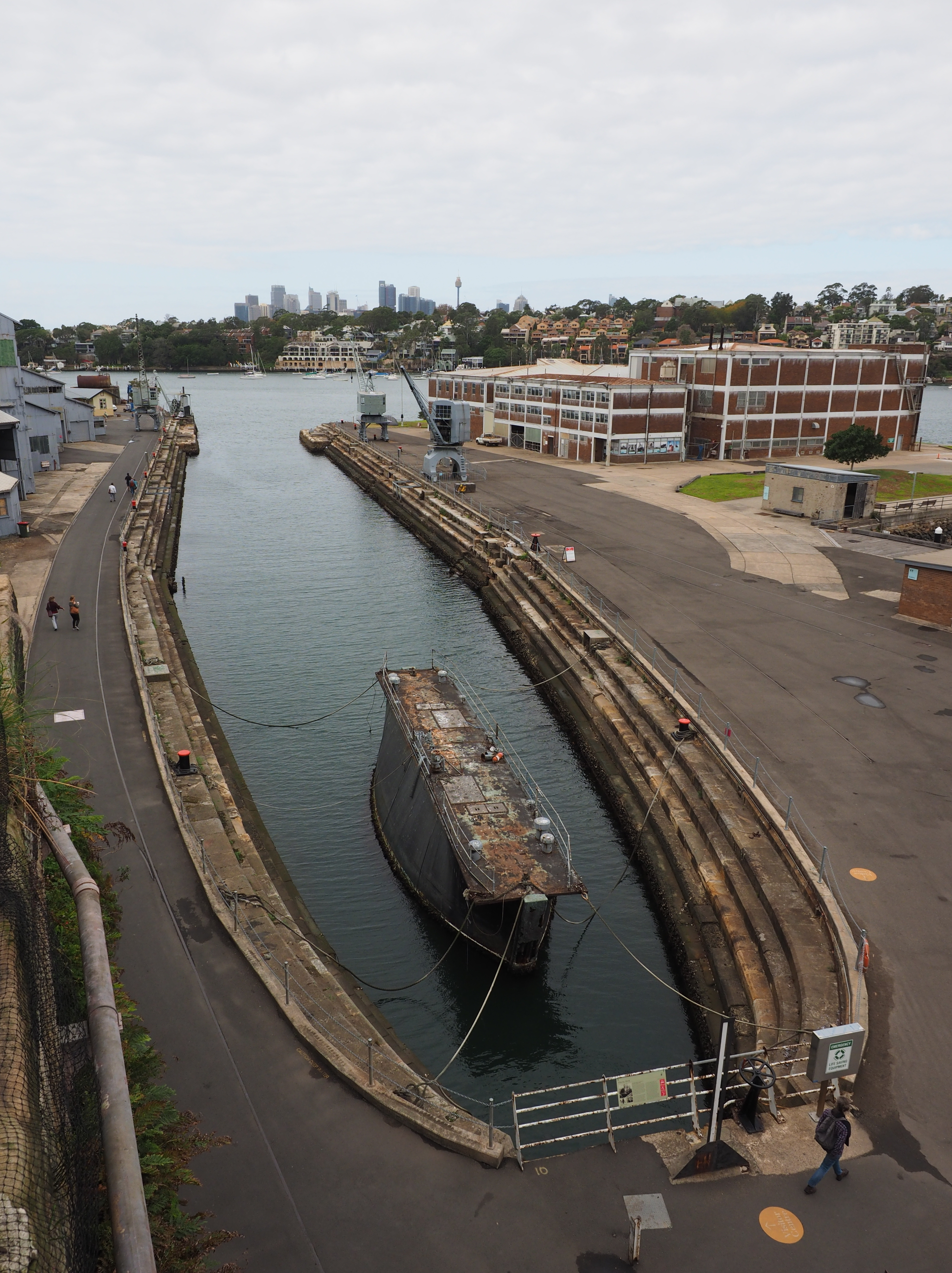 Fitzroy Graving Dock in April 2018